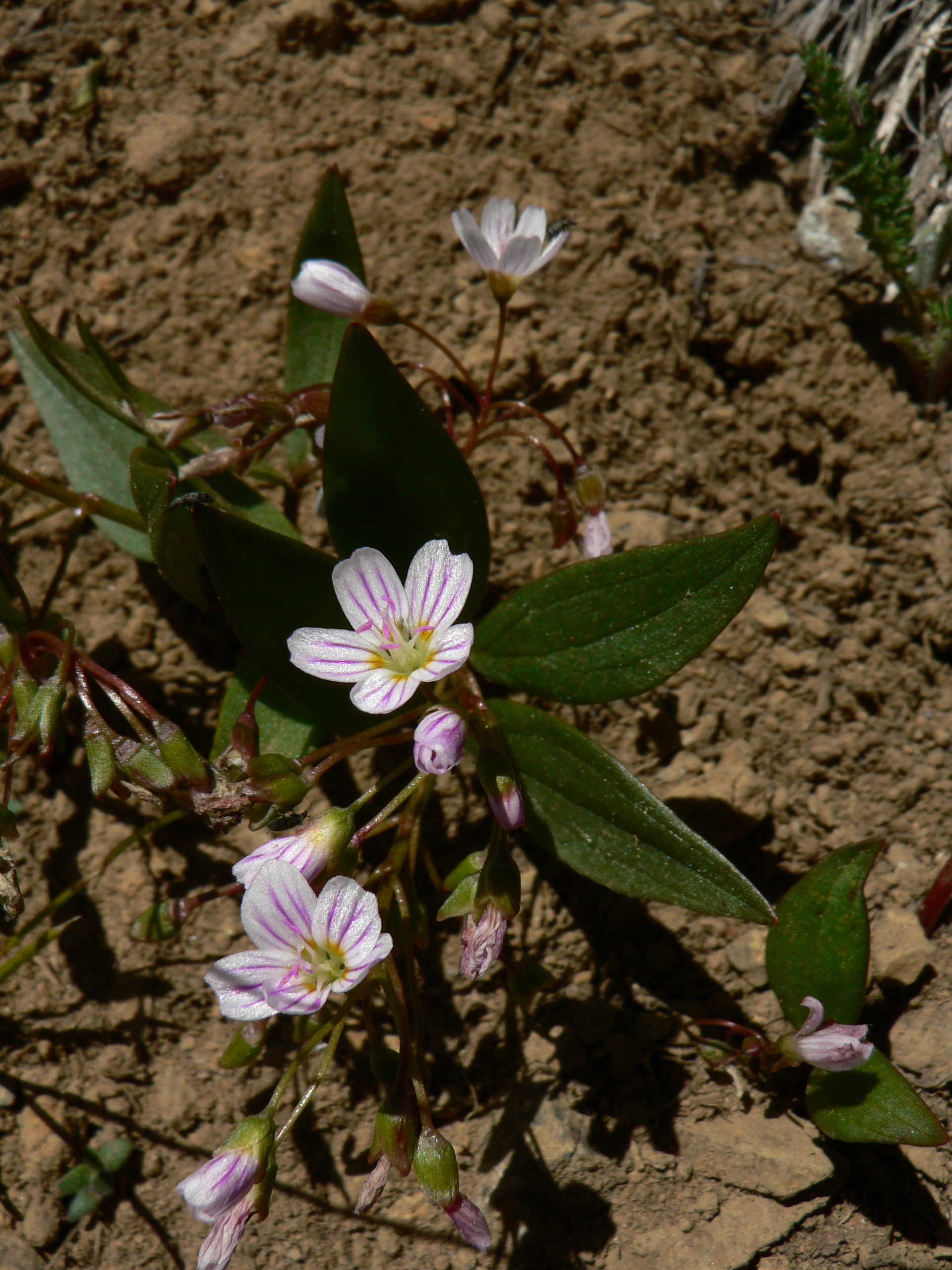 Lanceleaf Springbeauty